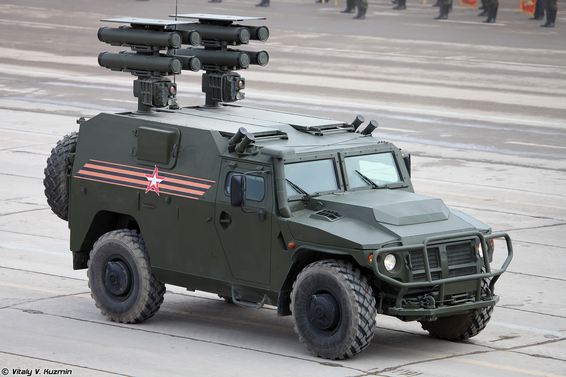 Kornet-D1 ATGM system on VPK-233116 Tigr-M base